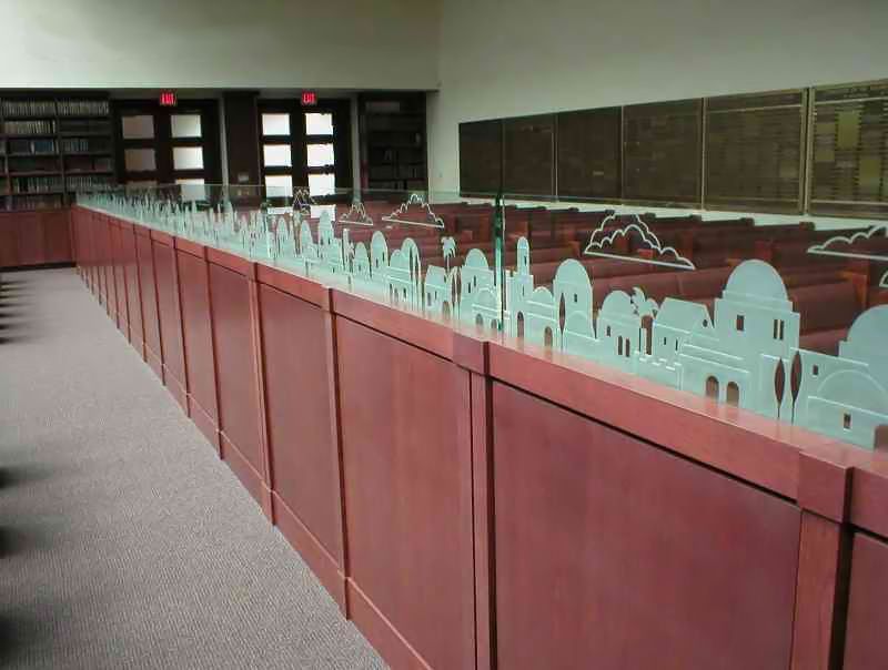 This example of a Mechitza was created for the Suburban Torah Center in Livingston, New Jersey, and features carved glass ornamentation. Created by Ascalon Studios.